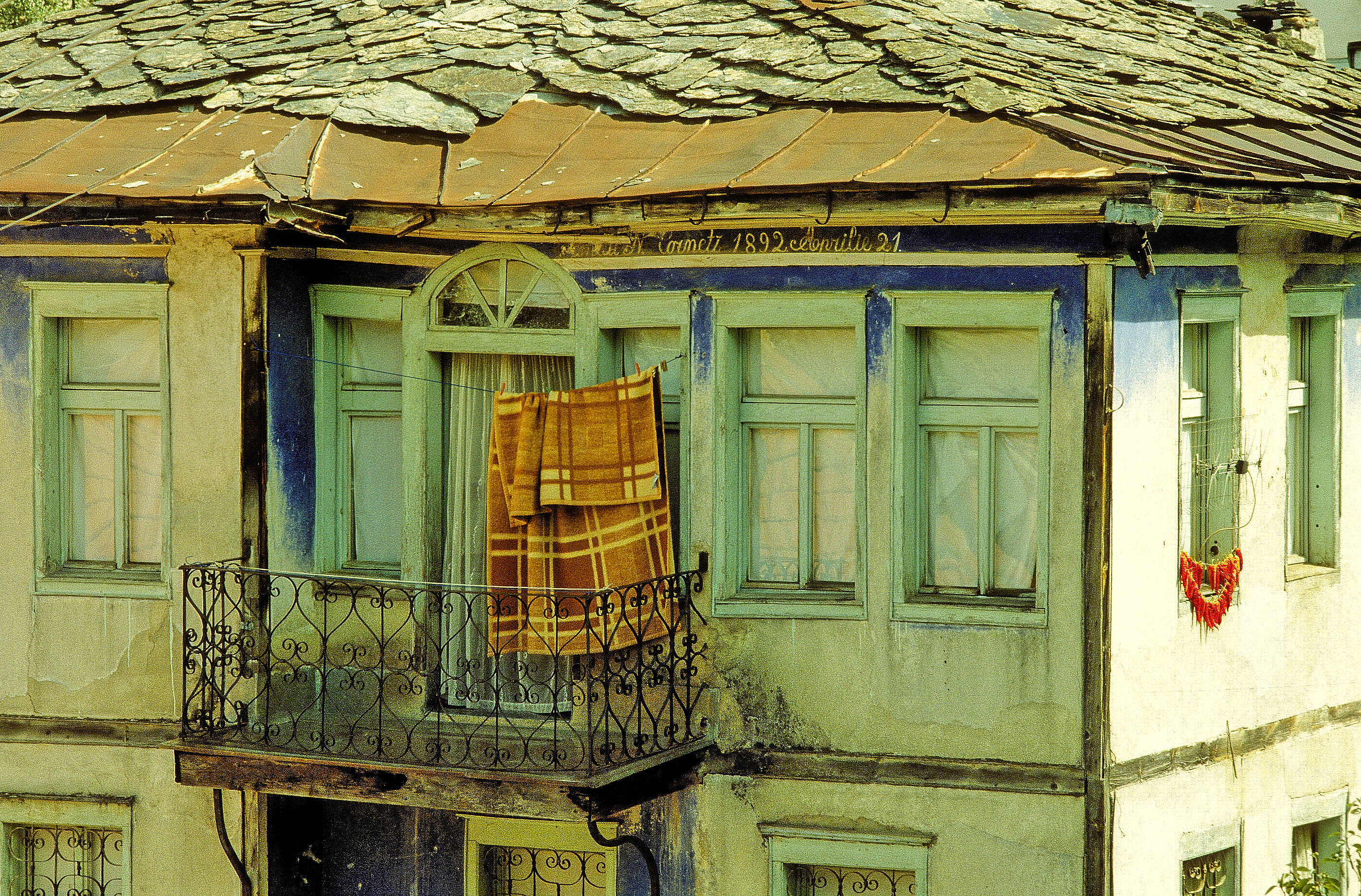 House from 1892 in Teovo